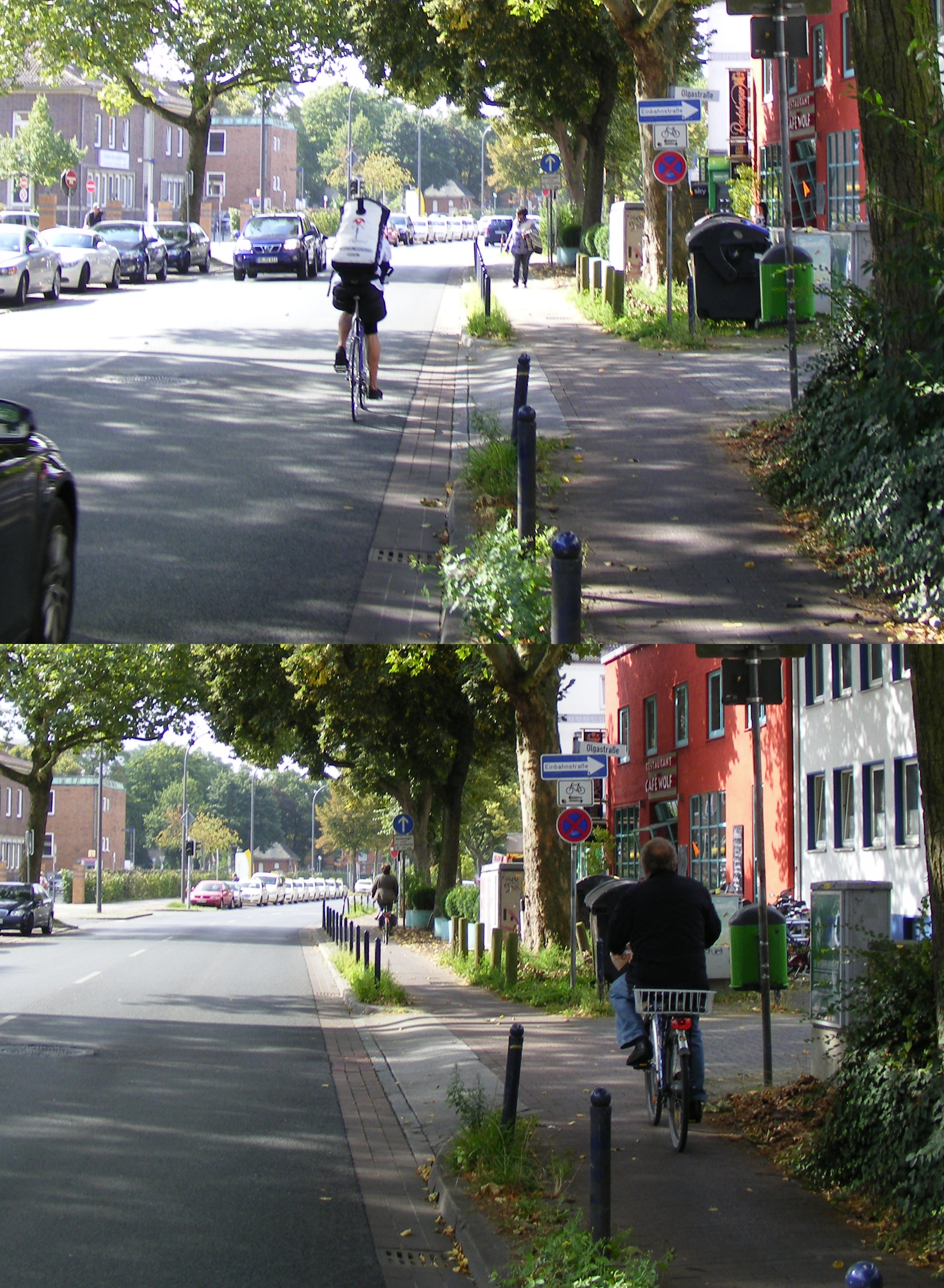 facultative use of cycletracks without blue roadsigns in Germany, here Sankt-Jürgen-Straße in Bremen